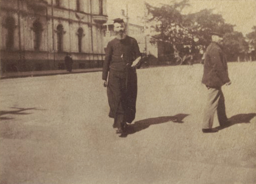 Rev. William Carr Smith, sixth Rector of St James' Church, walking in the streets of Sydney